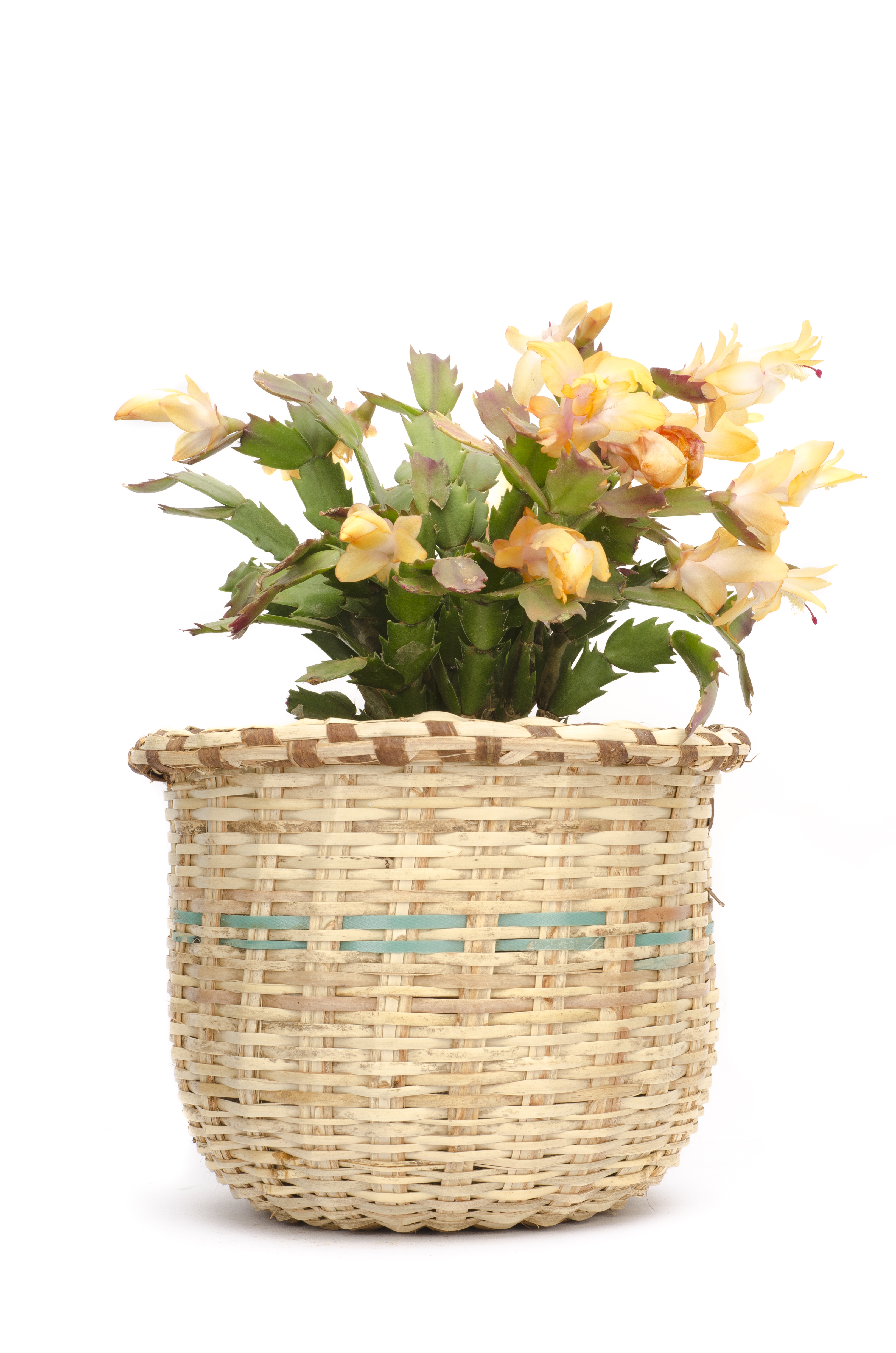 Underestimated for its ethnic beauty in Kenya, the locally available raffia basket is a common household item used for dustbins, laundry and grain storage in Kenya. These are expertly woven by the Turkana of Northern Kenya and sold for export or at the Maasai Market curio shops in Nairobi and other urban areas. Here, is my 'waste basket' that was used as our brands photography to shoot a unique planter for the Christmas Cactus also known as the Schlumbergera Cactus. Image was shot for marketing and adverting purposes for the sale of a variety of succulents for the Nairobi market. Image is owned by An e-commerce platform for designs, flora and thoughtful gifts.Kiswahili: Kikapu hichi chapatikana kwa wingi hapa Kenya na si rahisi kwa wananchi wengi kujua kuwa kikapu hiki kina pendeza kwani maumbile yake yana umaarufu ya kitamaduni. Huwa zinashonwa kule, Turkana, Magharibi wa Kenya halafu zinaletwa huku Nairobi kwenye duka za watalii kama Maasai market na hata kuuzwa katika jiji kuu hapa Kenya. Hichi kikapu ni changu, huwa natumia kama kikapu cha takataka na sasa nimeitumia kuubeba mumea huitwa Christmas Cactus au Schlumbergera Cactus nilichokuwa na piga picha. Picha hii ni ya kutumia kwa mtandao ya Hii mtandao itakuwa ikiuza vitu zilizoundwa kwa ustadi na umaarufu, mimea ya aina ya 'succulents' na aina za zawadi tofauti tofauti. This is an image of Cultural Fashion or Adornment from Kenya